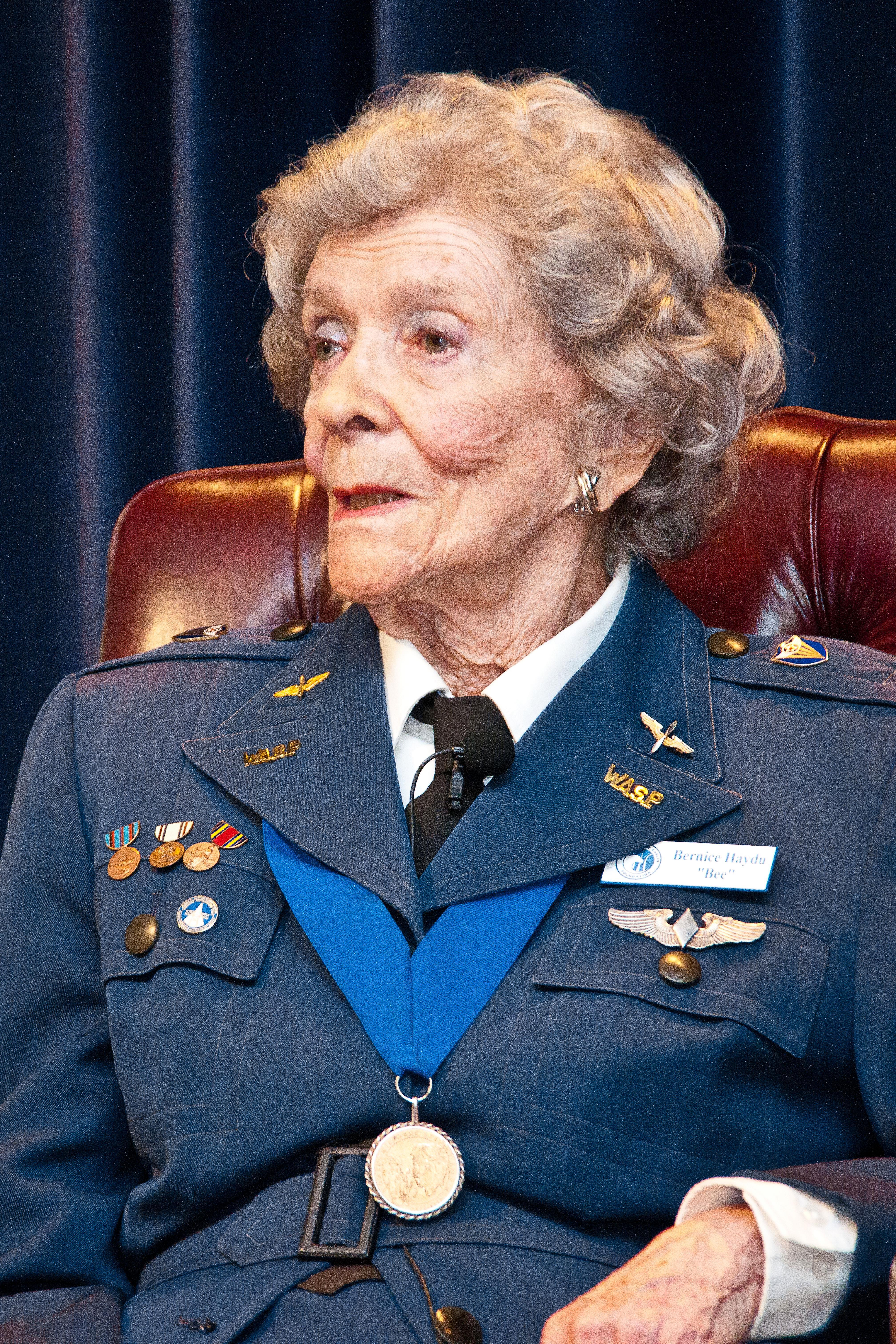 Bernice "Bee" Haydu is interviewed June 5, 2014, at Maxwell Air Force Base, Ala. Haydu is a veteran pilot of World War II. She earned her wings with the Women Airforce Service Pilots, the first women to fly American military aircraft. She also helped lead the fight in Congress to recognize WASP members as veterans.